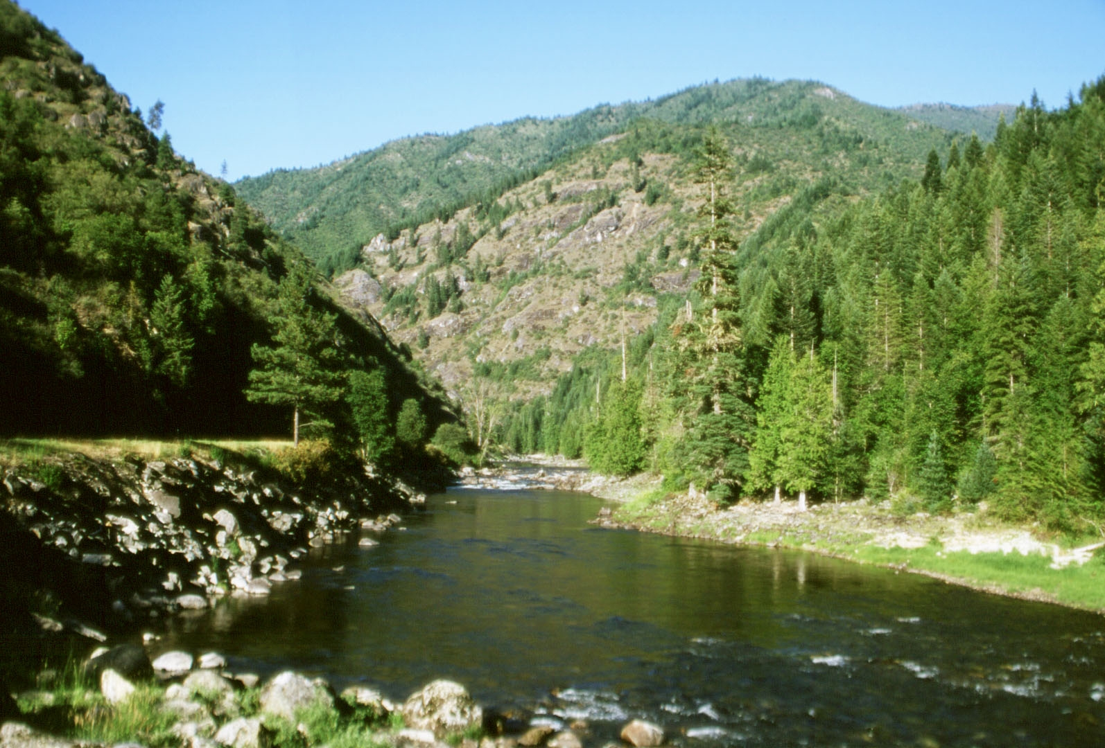 Scenic view of the Lochsa River in the Clearwater Forest of Idaho (United States) This photo was provided by and used with permission of the Idaho Travel Council ([1]) Please credit the Idaho Travel Council when used.